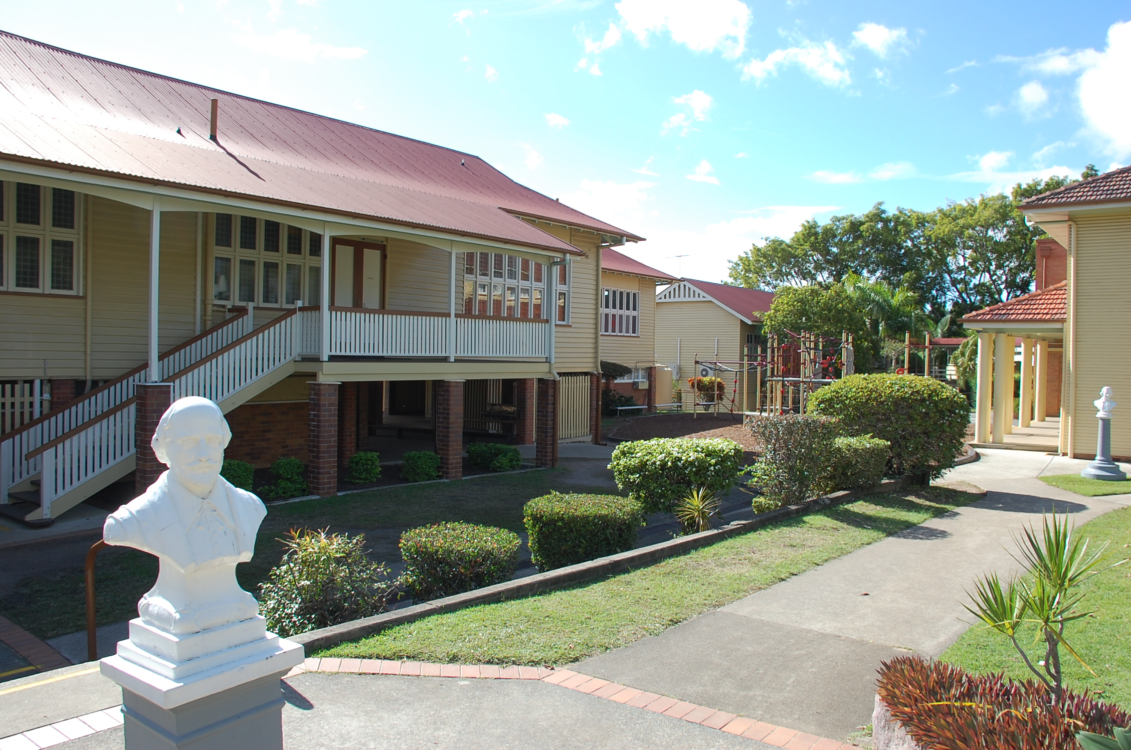 Entrance to Wilston State School in Primrose Street, Grange, in Queensland, Australia.